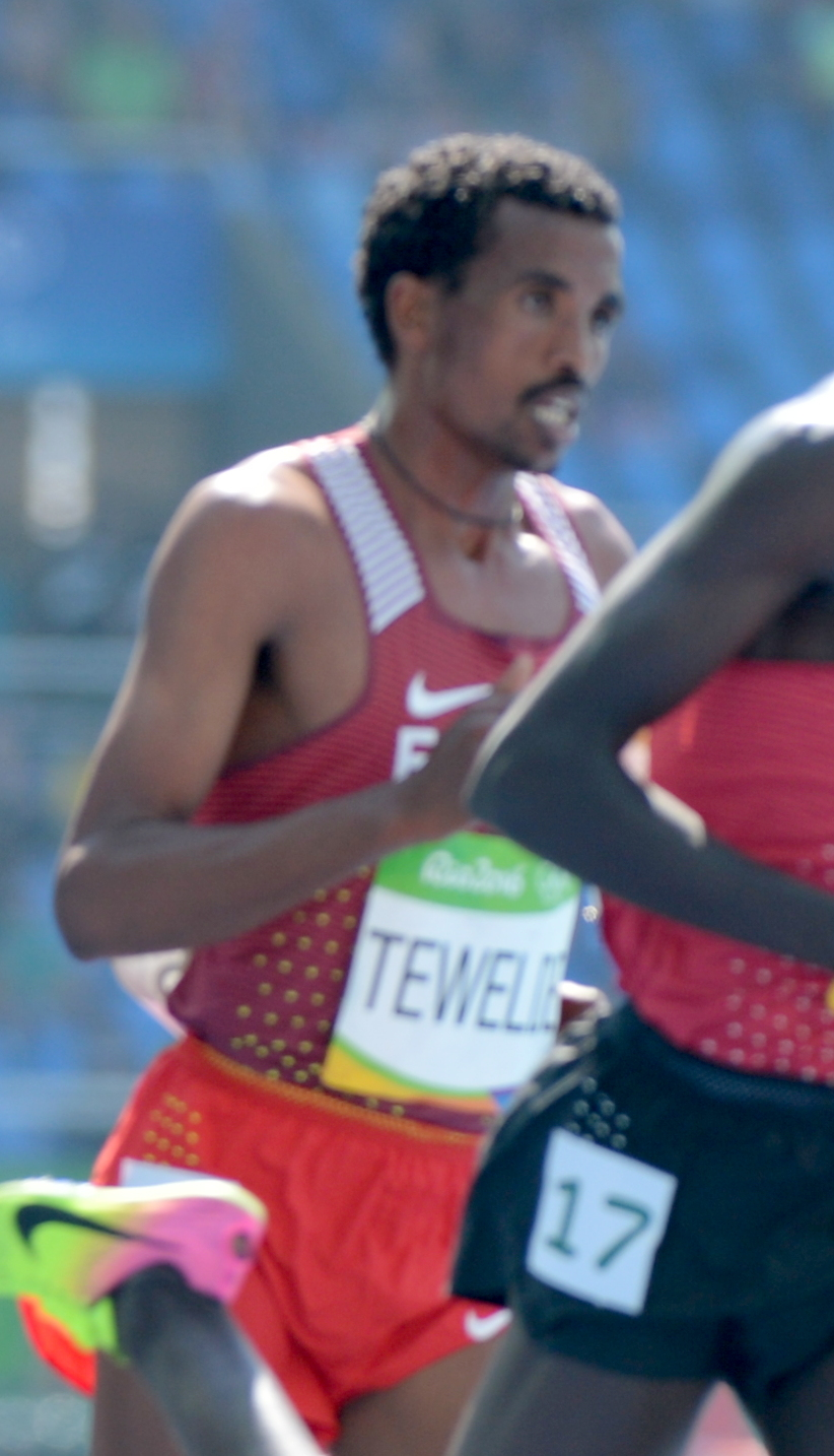 Hiskel Tewelde in the second heat of men's 5,000-meter run, Wednesday, Aug. 17 at the Rio Olympic Games in Rio de Janeiro. U.S. Army photo by Tim Hipps, IMCOM Public Affairs #SoldierOlympians #ArmyOlympians #ArmyTeam #GoArmy #TeamUSA #RoadToRio #Olympics #ArmyStrong